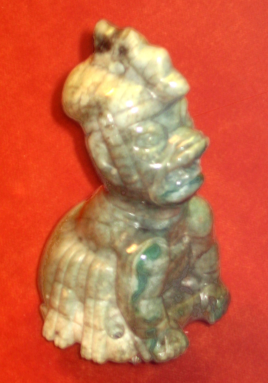 Discovered in 1909, this small jade figurine possesses the features of a Olmec were-jaguar, including almond-shaped eyes, a cleft head (unseen in this photo), a broad flat nose, a snarling mouth with an everted upper lip, a band across the lower part of its headdress, and pleated earbars. A crossed-band motif appears at the waist. Height 8.6 cm (3.4 in).